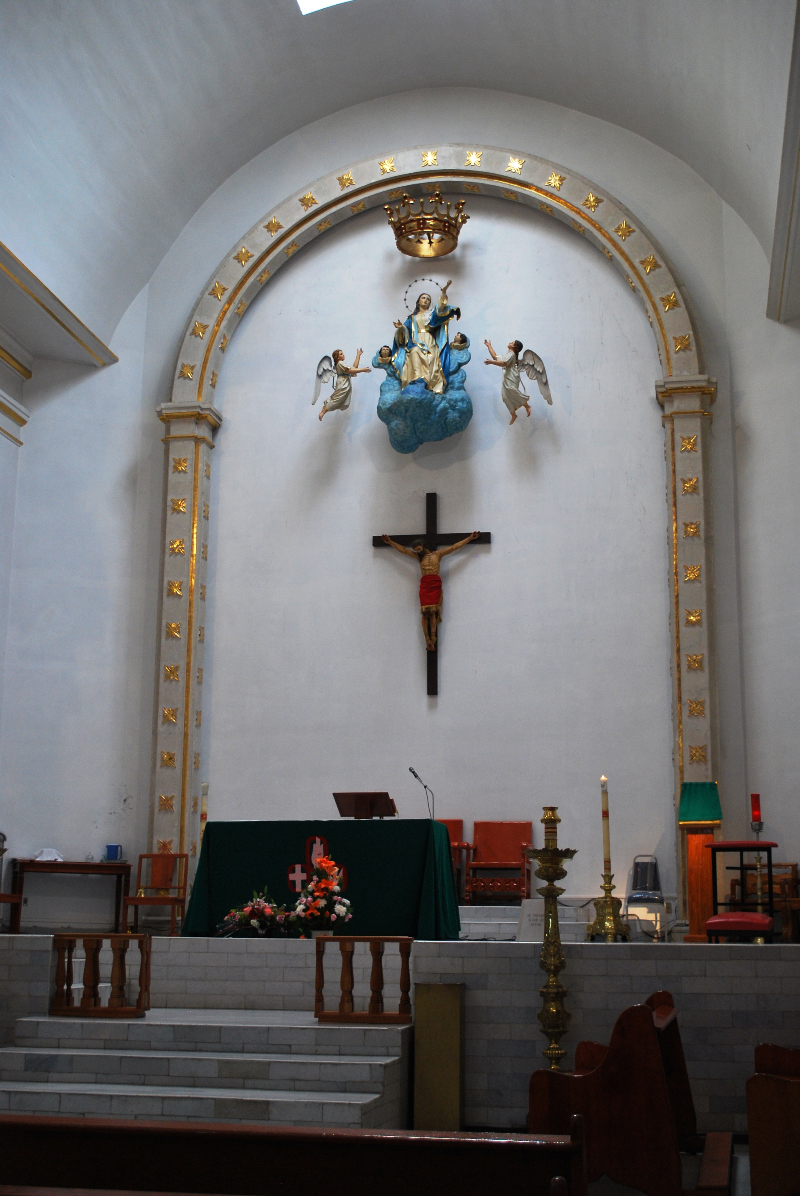 Main altar of the La Asuncion Parish in Pachuca, Hidalgo, Mexico